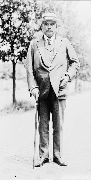 John Pierpont Morgan, Jr., 1867-1943